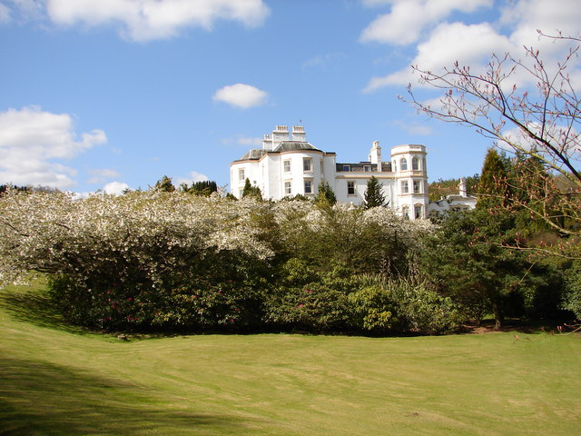 Kirroughtree Hotel April scene at the Kirroughtree Hotel near Newton Stewart. Formerly Kirroughtree House, it dates from 1719, built in the ‘wedding-cake' style with fine panelled hall and stairs, it is situated in the former Kirroughtree Estate.